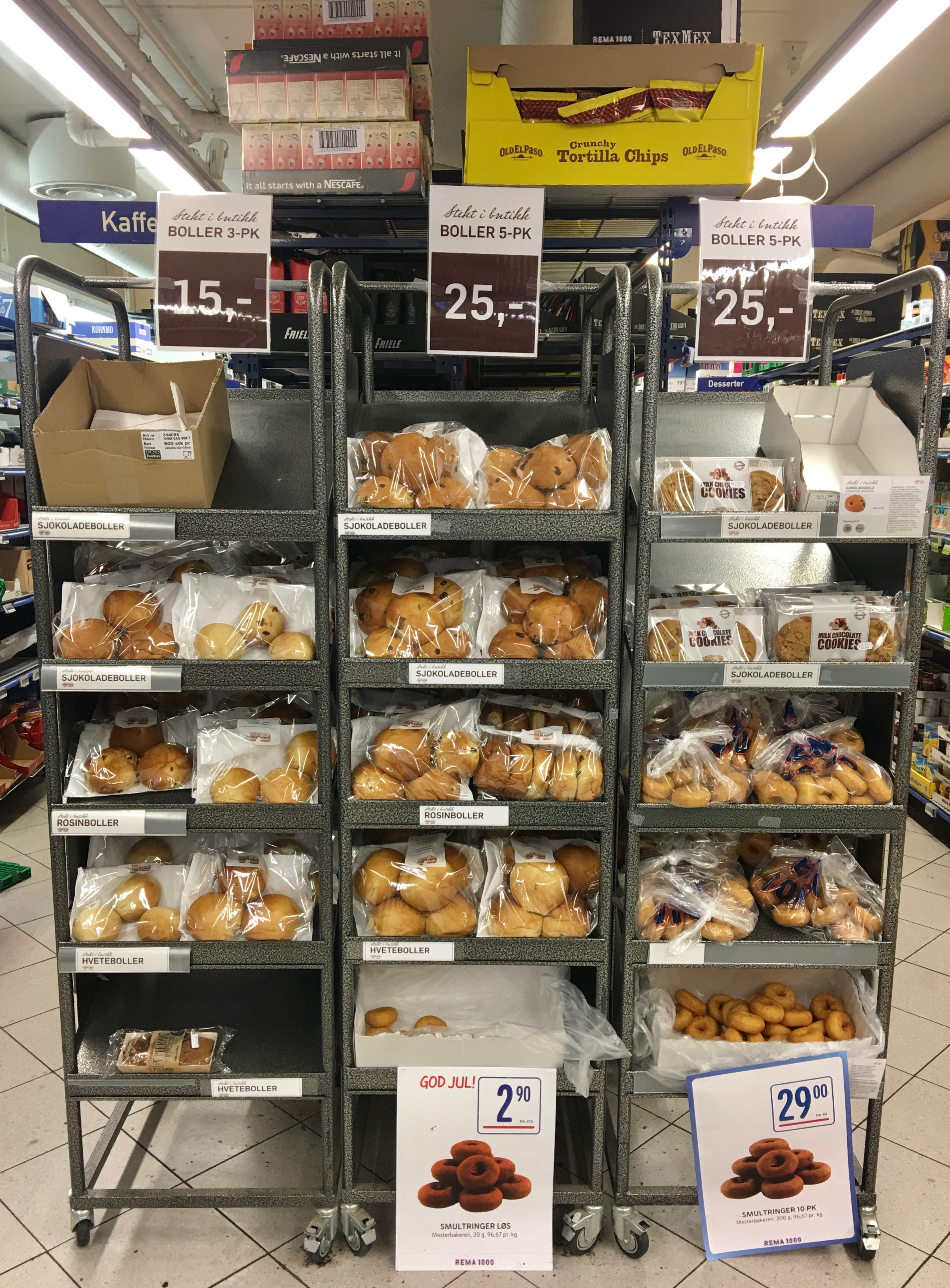 Norwegian baked buns, sweet rolls (boller, rosinboller, sjokoladeboller, hveteboller) for sale at Rema 1000 Supermarket in Oslo, Norway 2017-12-14